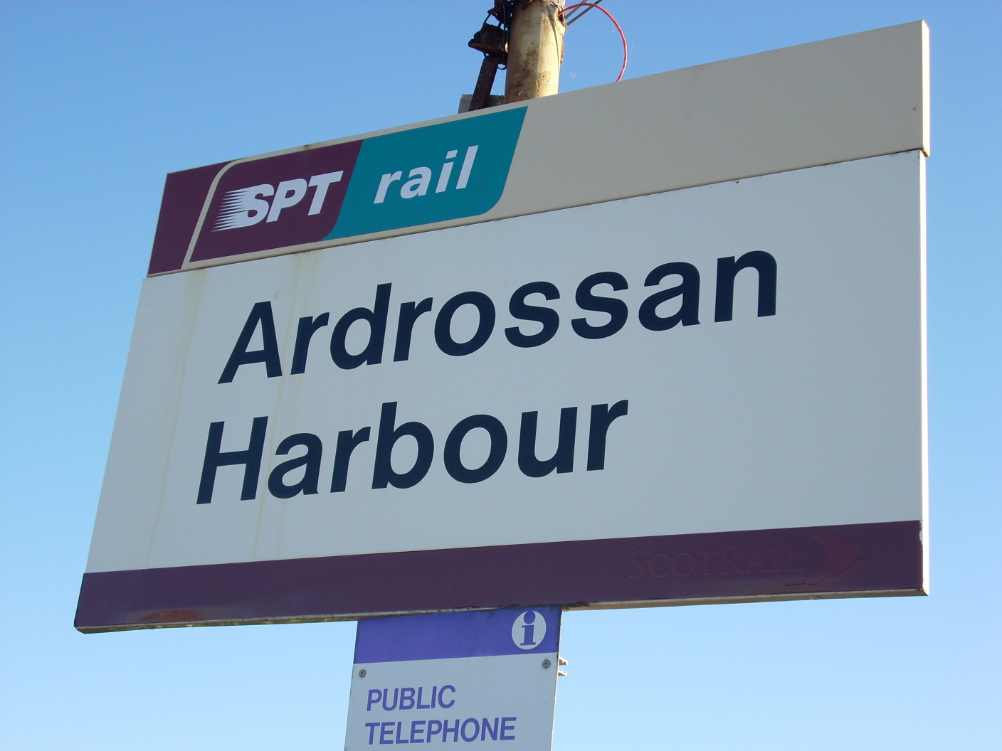 Signage for Ardrossan Harbour railway station in Ardrossan, North Ayrshire, Scotland. Photograph by Dreamer84, taken on 20 August 2007.